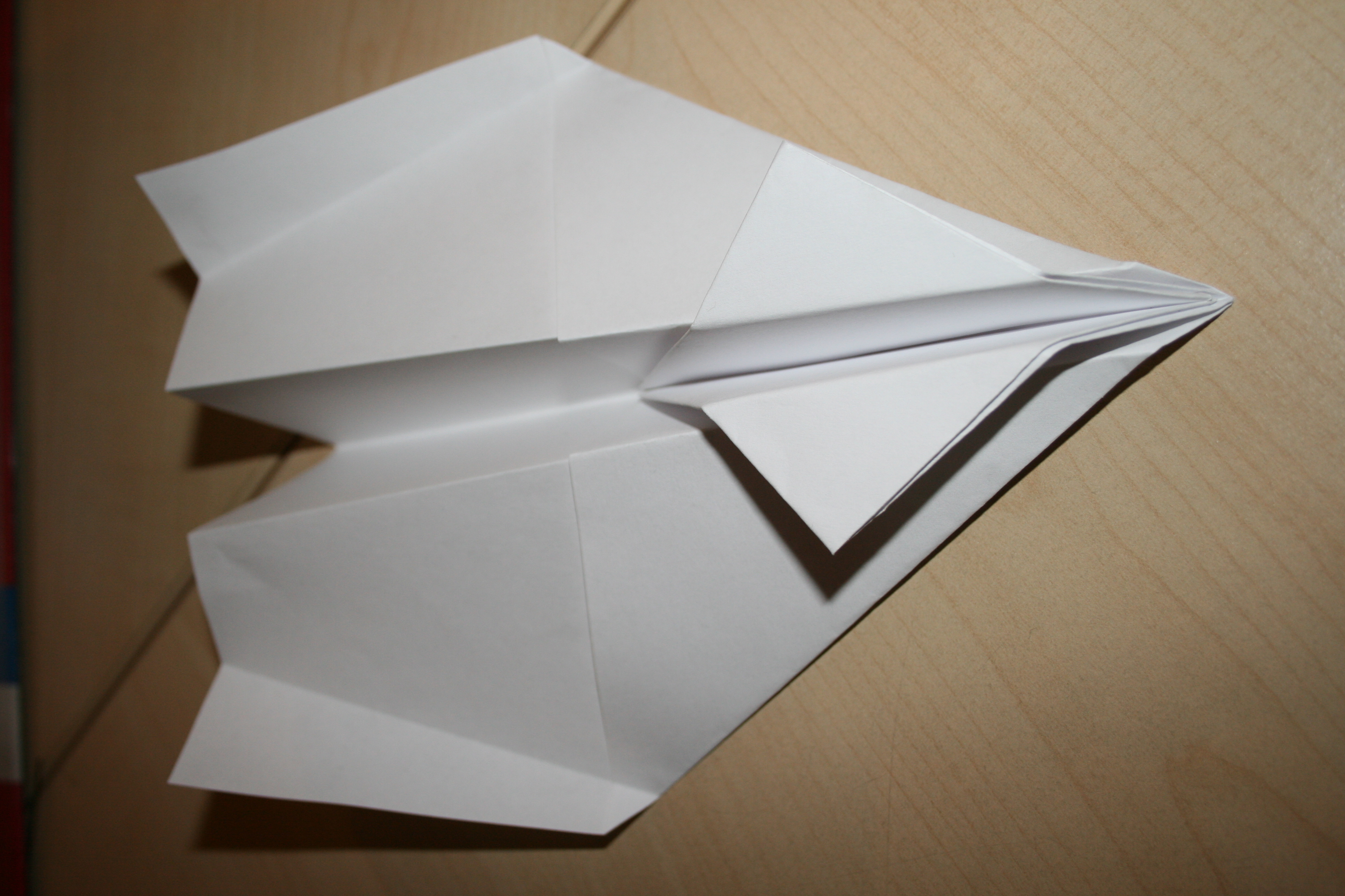 Building a paper ariplane, step 1